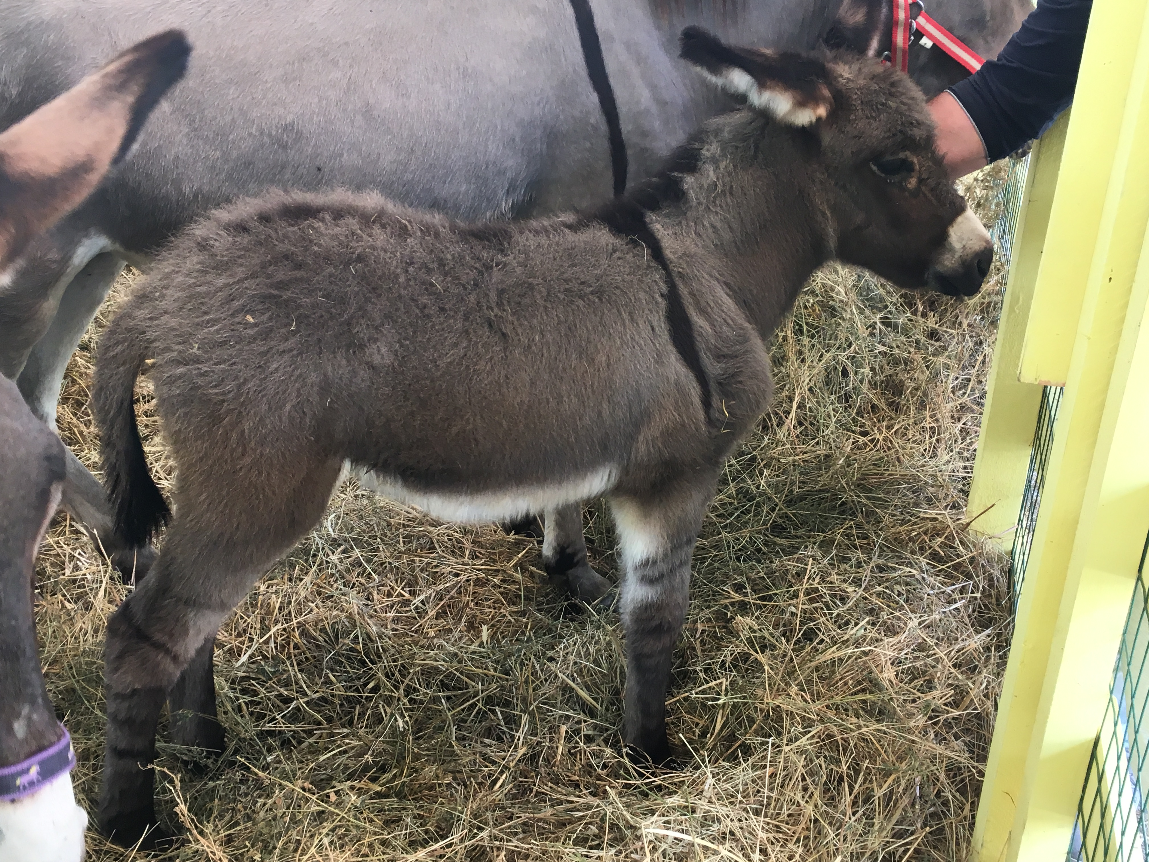 Amiatina donkey foal at the Rural Festival, Gaiole in Chianti, Tuscany, Italy, 17–18 September 2016